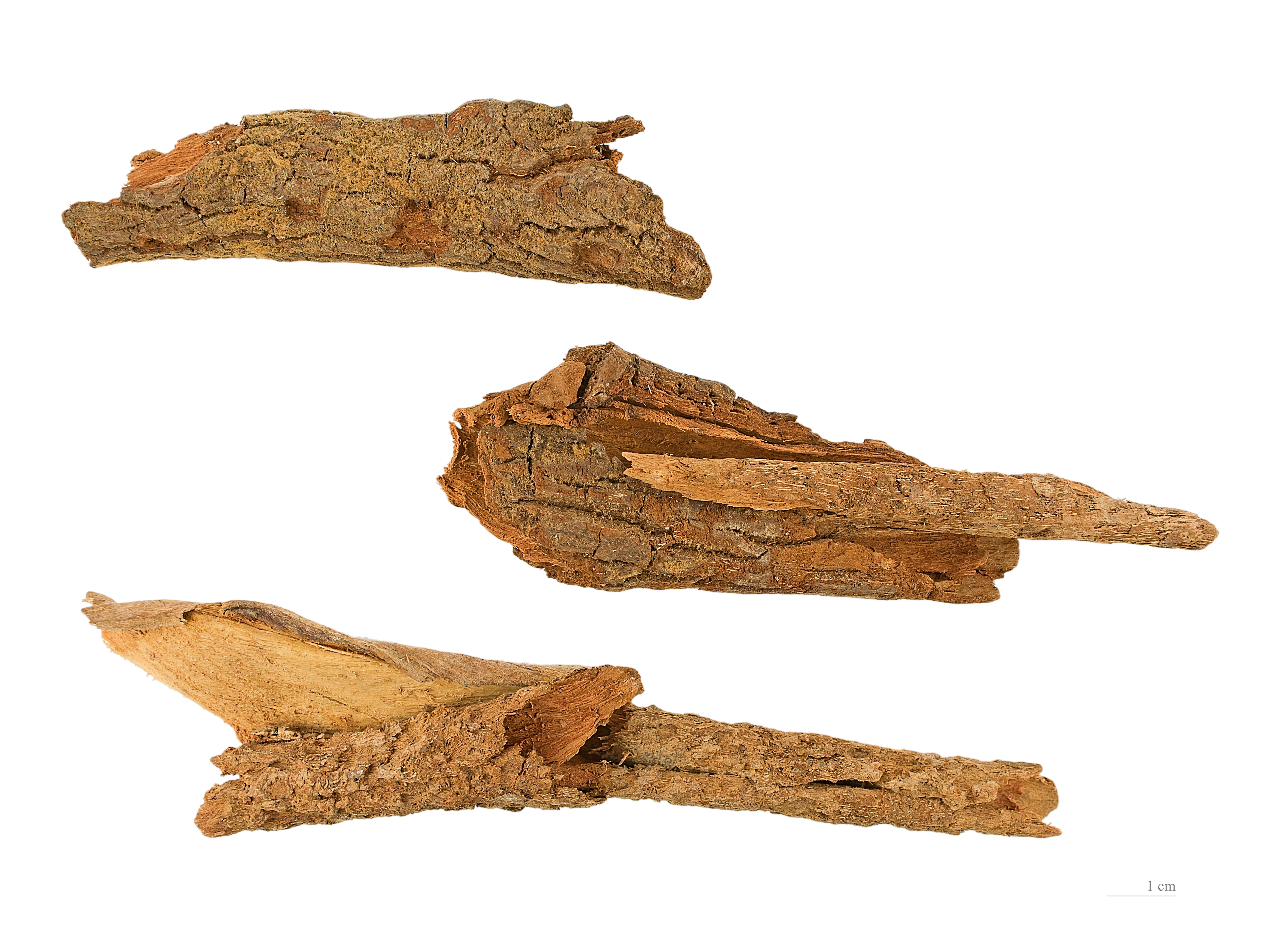 Richeria grandis, wood.